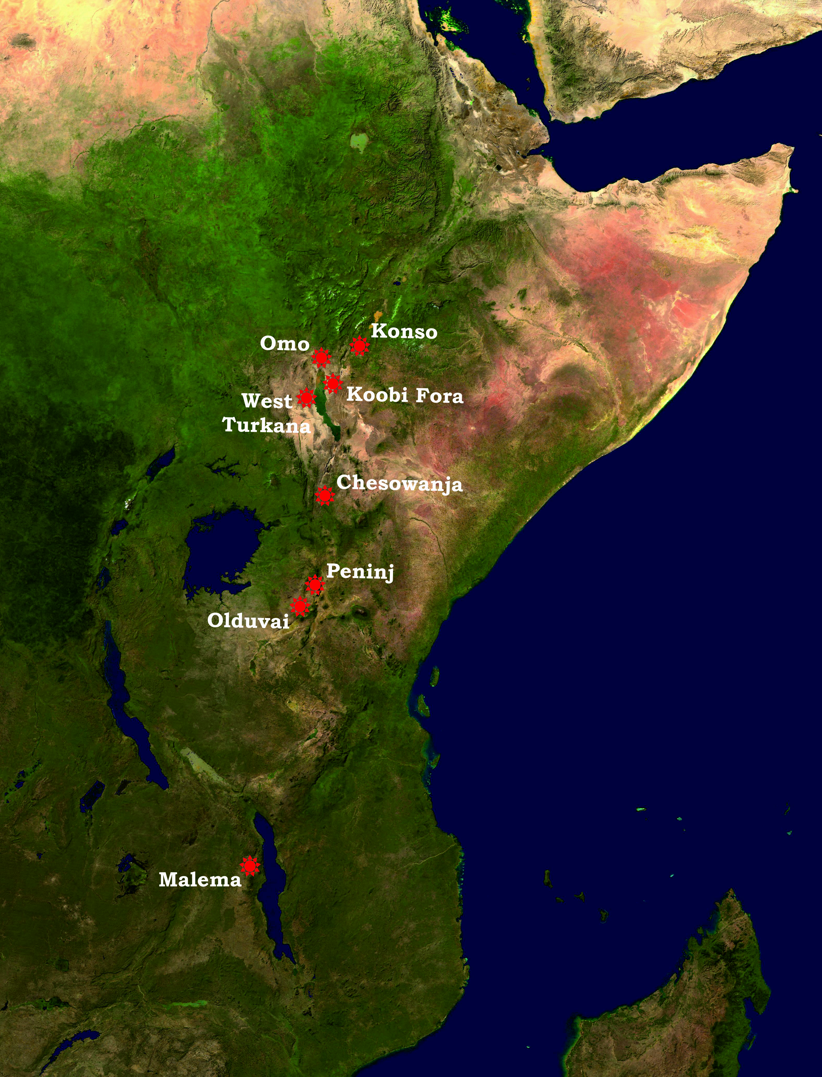 Paranthropus boisei paleoanthropological sites in East Africa - Malawi, Tanzania, Kenya and Ethiopia